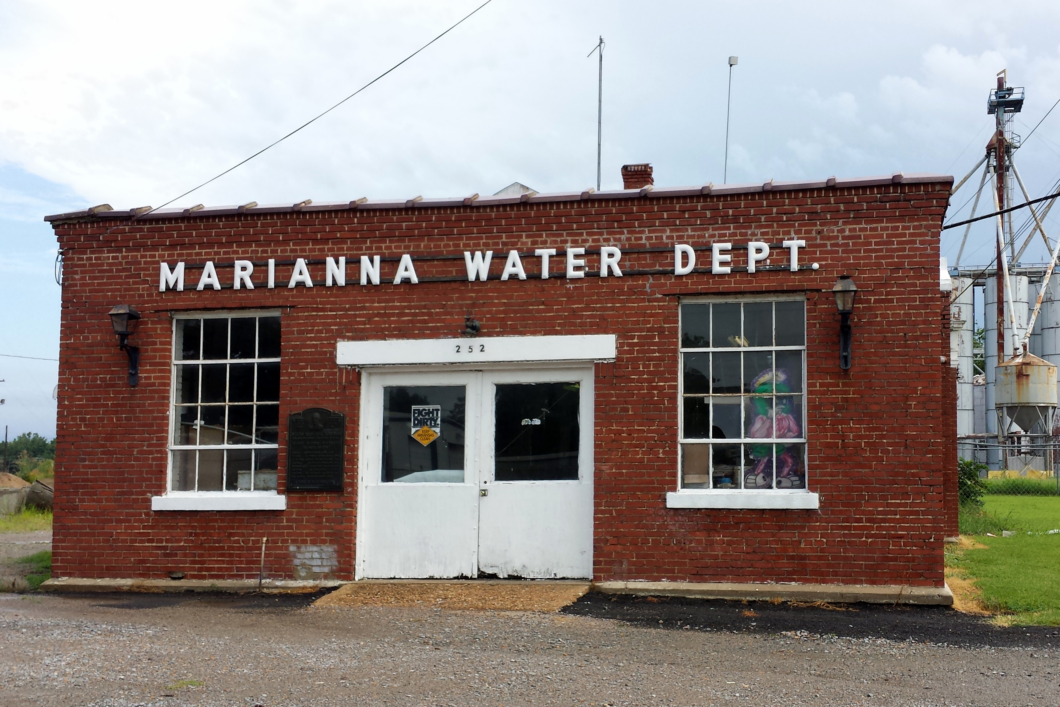 Marianna Waterworks